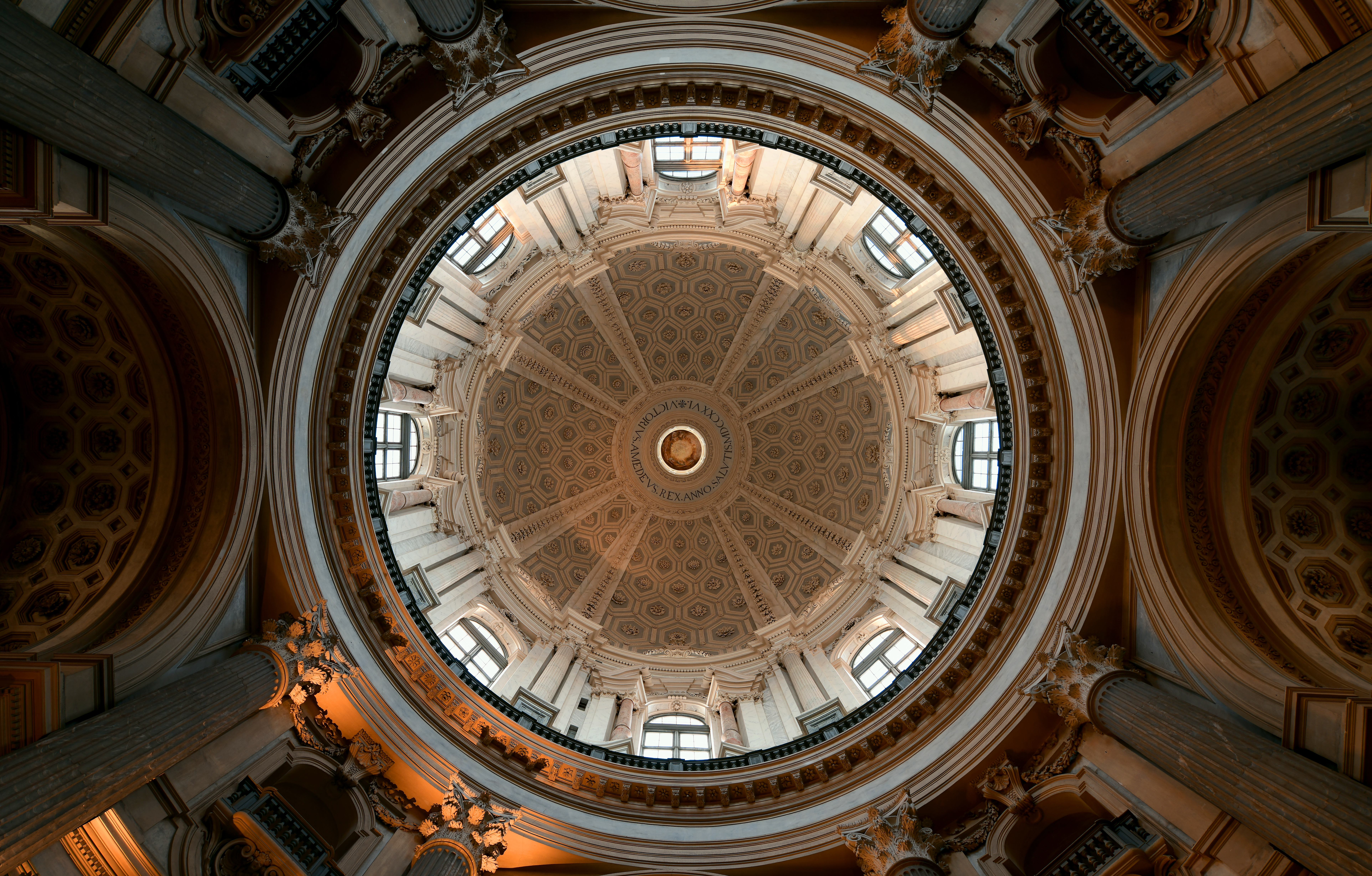 Basilica di Superga (Turin) - Dome